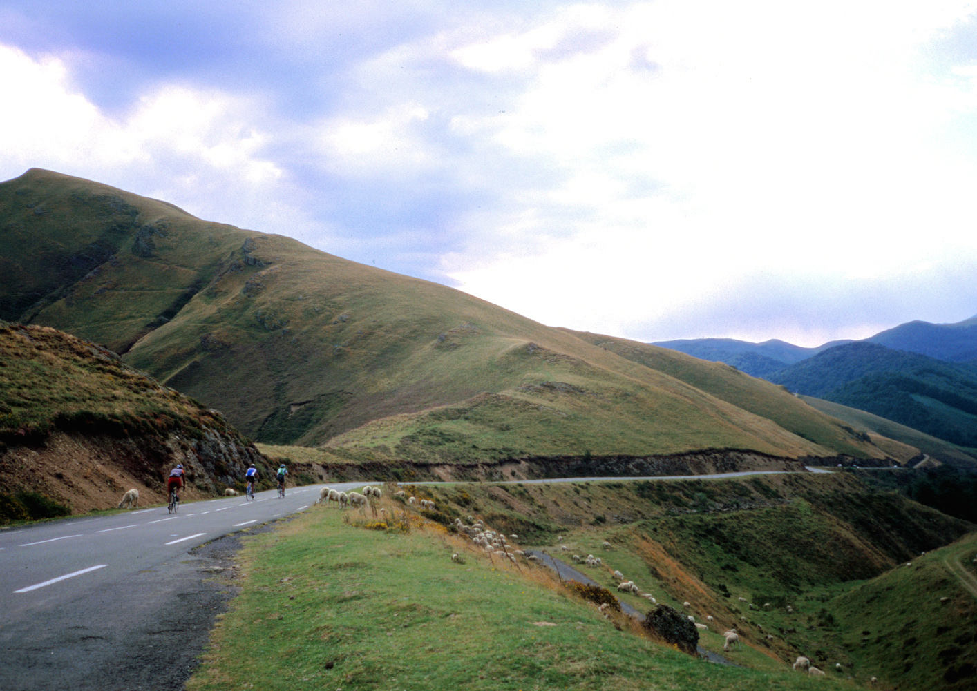 Col de Burdincurutcheta, french Pyrenees